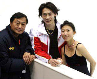 Pang Qing and Tong Jian at the boards with their coach Yao Bin at the 2007-2008 Grand Prix Final.